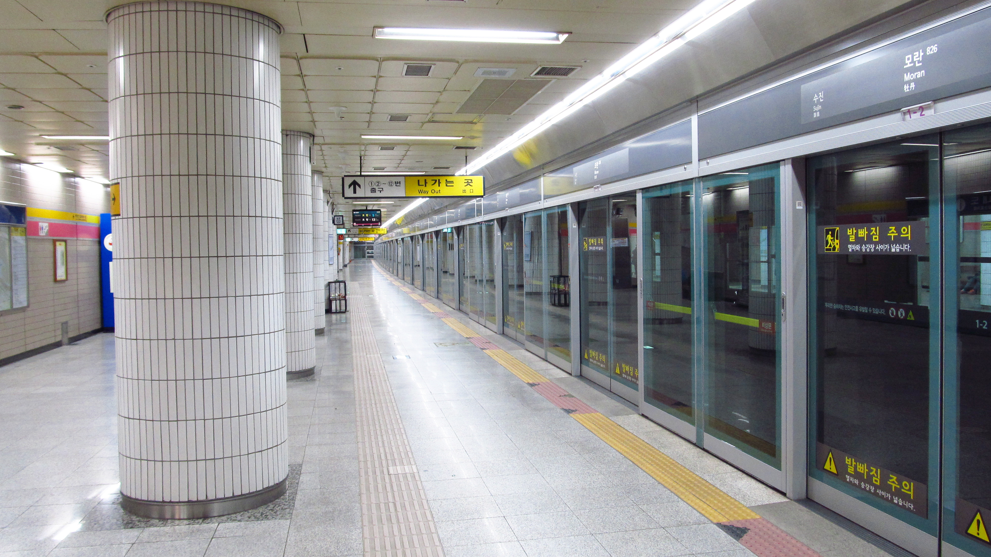 The platform at Moran Station on Seoul Subway Line 8 in Seongnam city, Gyeonggi-do(province), Republic of Korea(South Korea)